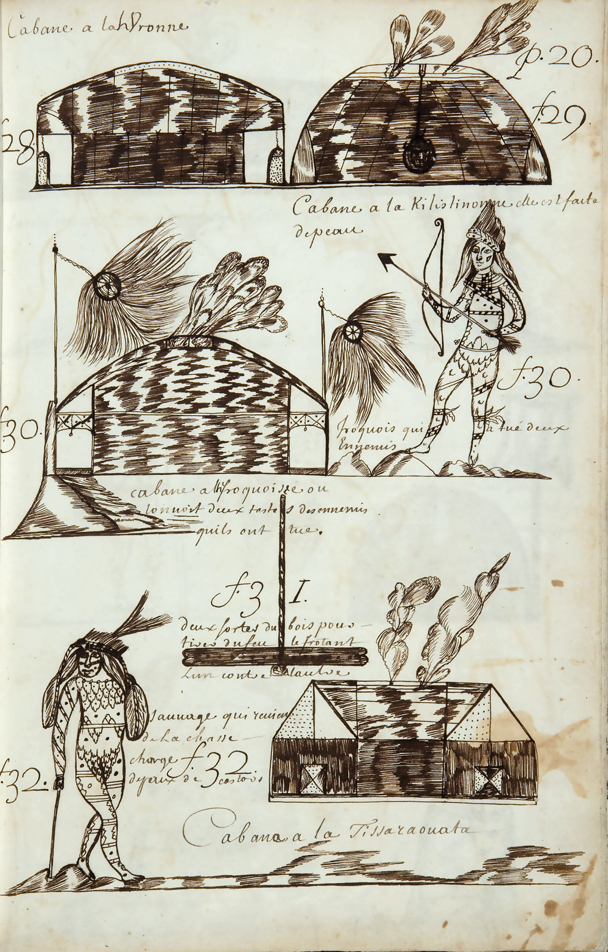 fig. 28 (upper left) Huron cabin fig. 29 (upper right) Kilistinon cabin made of hide fig. 30 (middle left) Iroquois cabin with two heads of enemies that they have killed (middle right) Iroquois who has killed two enemies fig. 31 Two kinds of wood to make fire by rubbing them one against the other fig. 32 (lower left) Man returning from the hunt carrying beaver pelts (lower right) Tissaraouata cabin